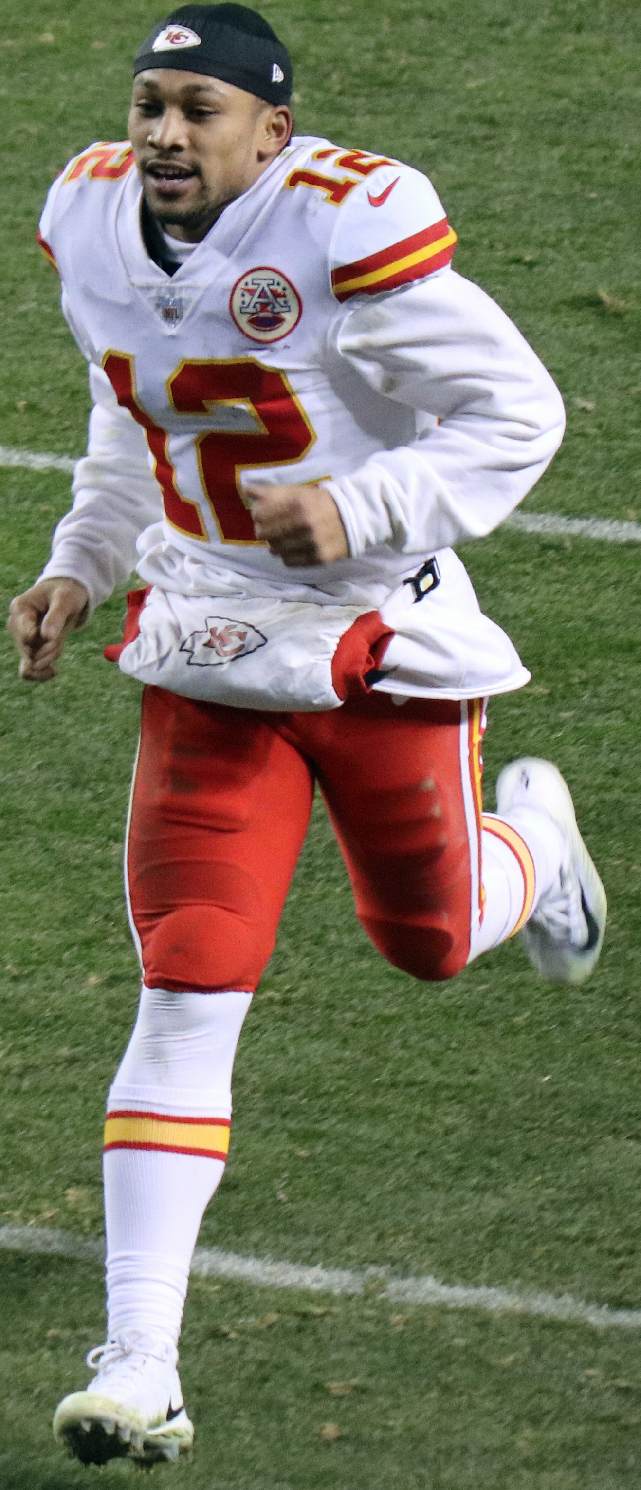 Albert Wilson, a National Football League player.